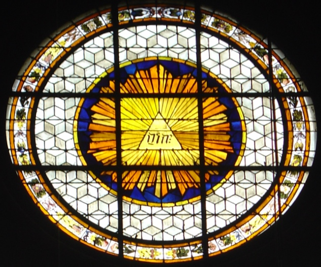 Tetragrammaton (God's name, see Jehovah) at the Roman Catholic Church Saint-Germain-des-Prés, at Paris, France